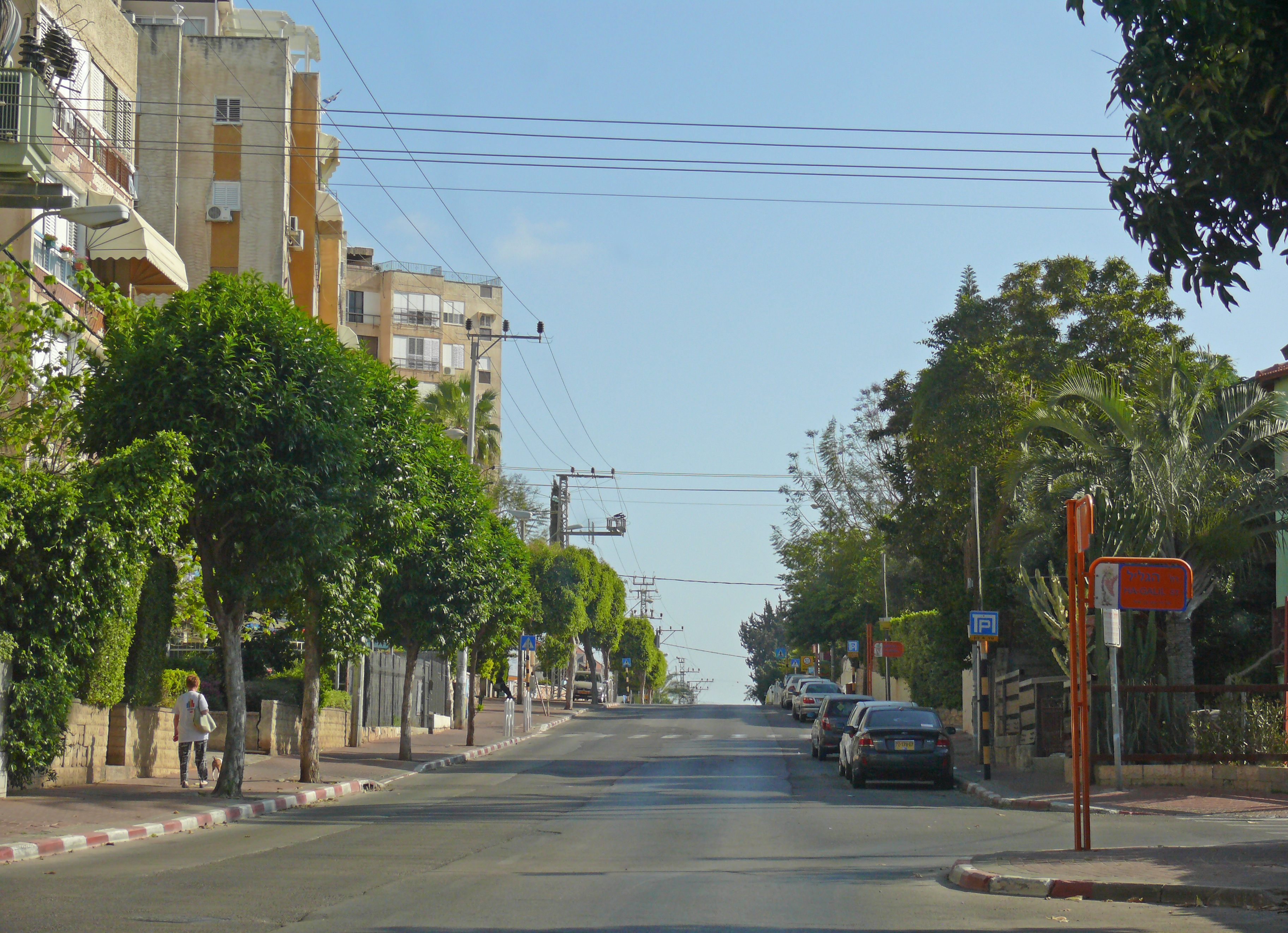 Remez street, Rishon LeZion, Israel